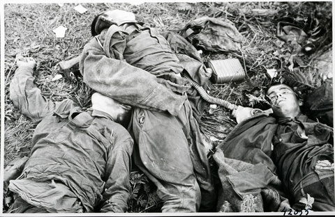 One of 300 images declassified by the Finnish government in 2006 showing the Winter War and Continuation War against the Soviet Union from 1939-45.